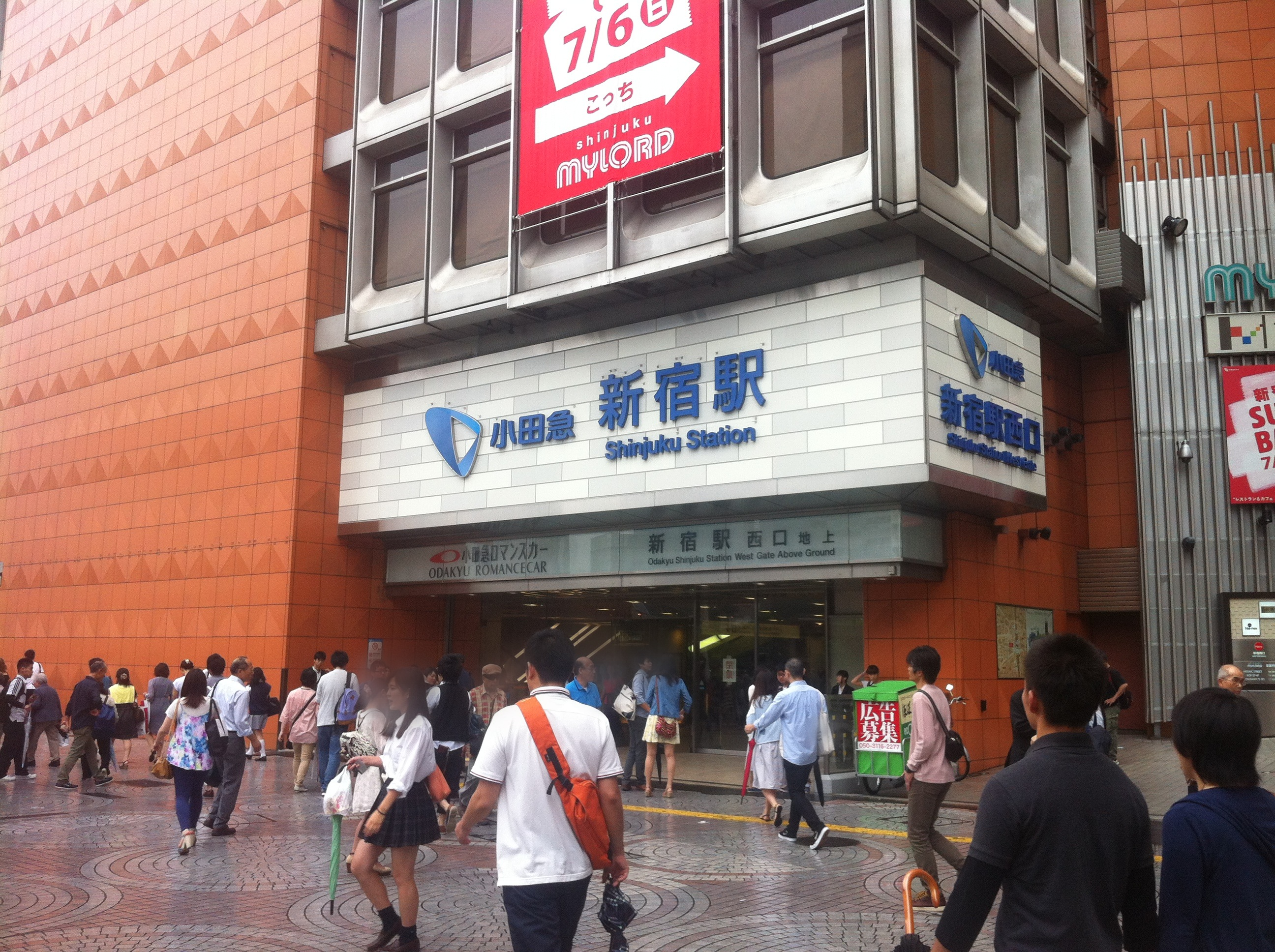 Odakyu Shinjuku Station West exit above ground